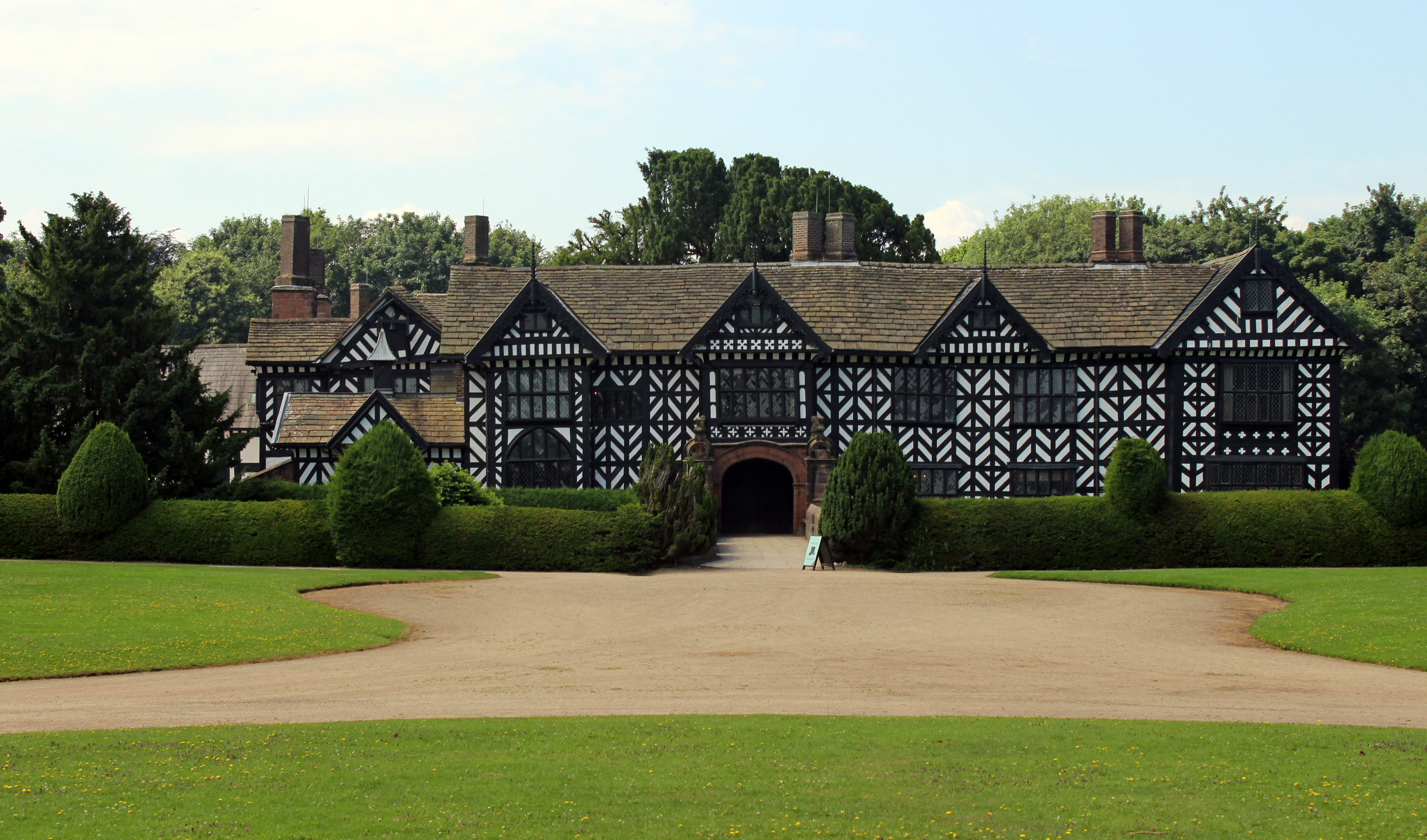 The most photographed view, from the front.